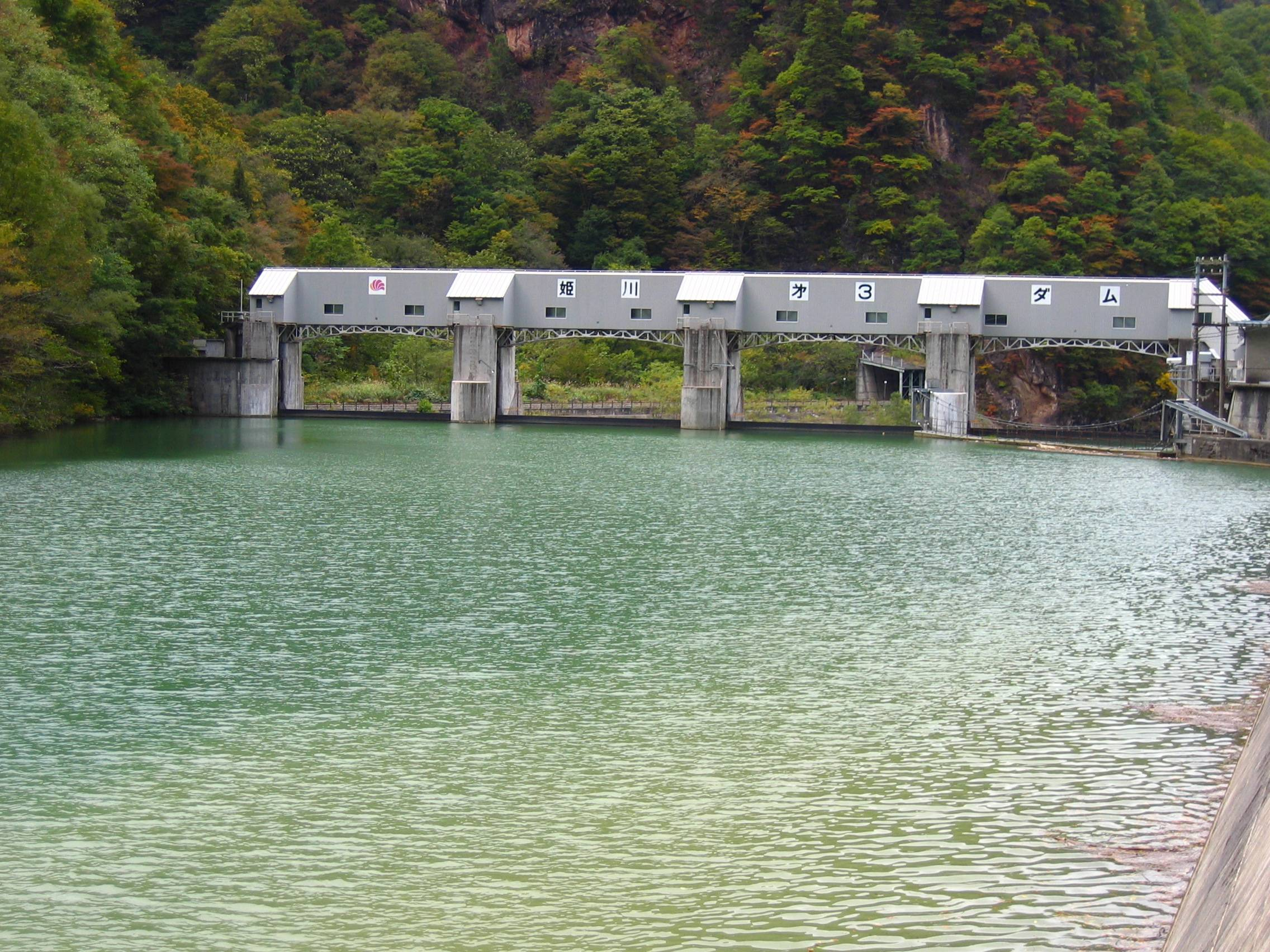 Himekawa III Dam (姫川第三ダム) in Otari village, Nagano prefecture, Japan.